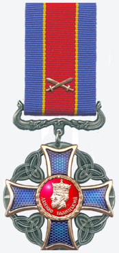 Order of Daniel of Galicia (military)